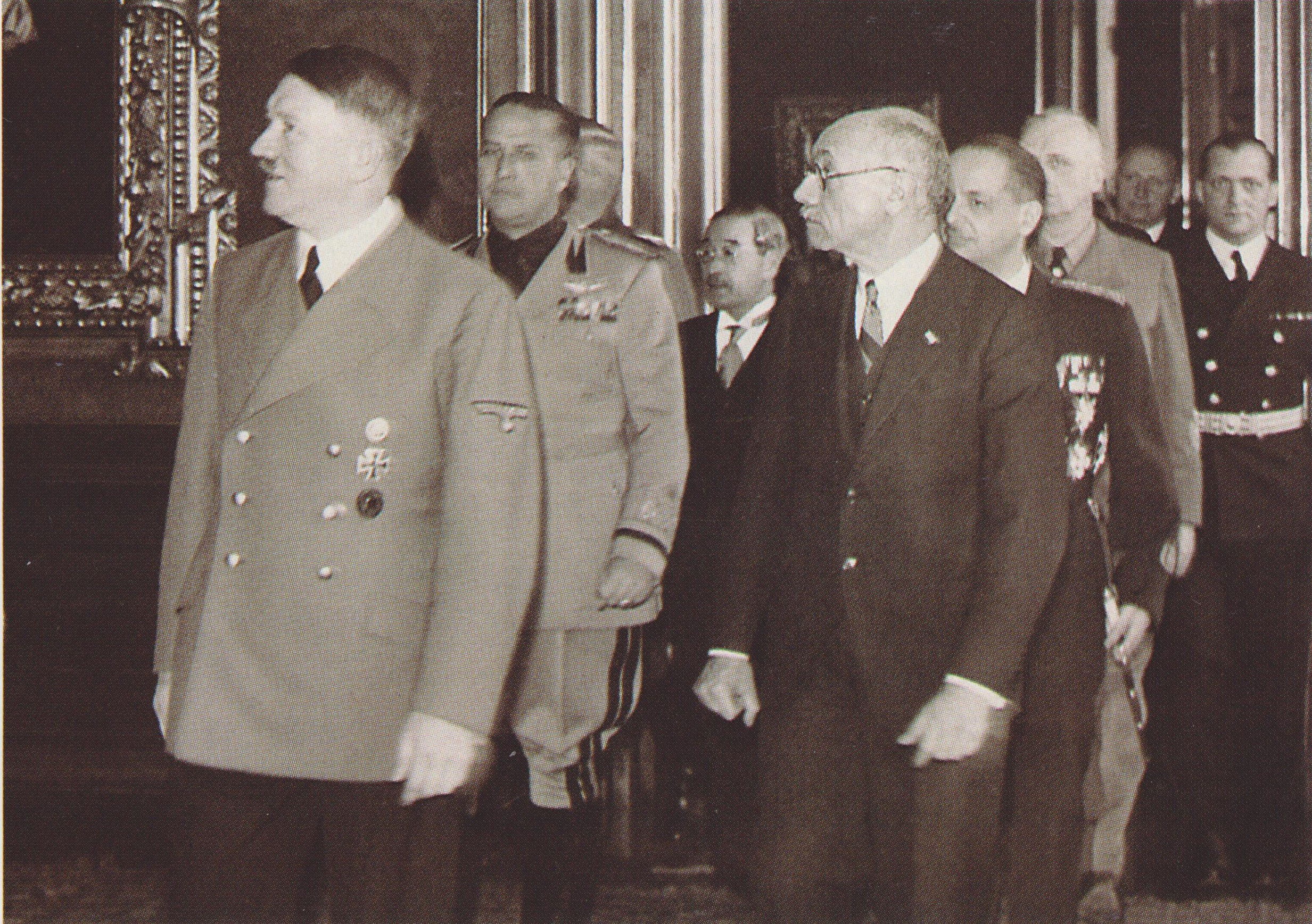 Hungary joins Tripartite Pact on 20 November 1940 (Vienna, Austria).